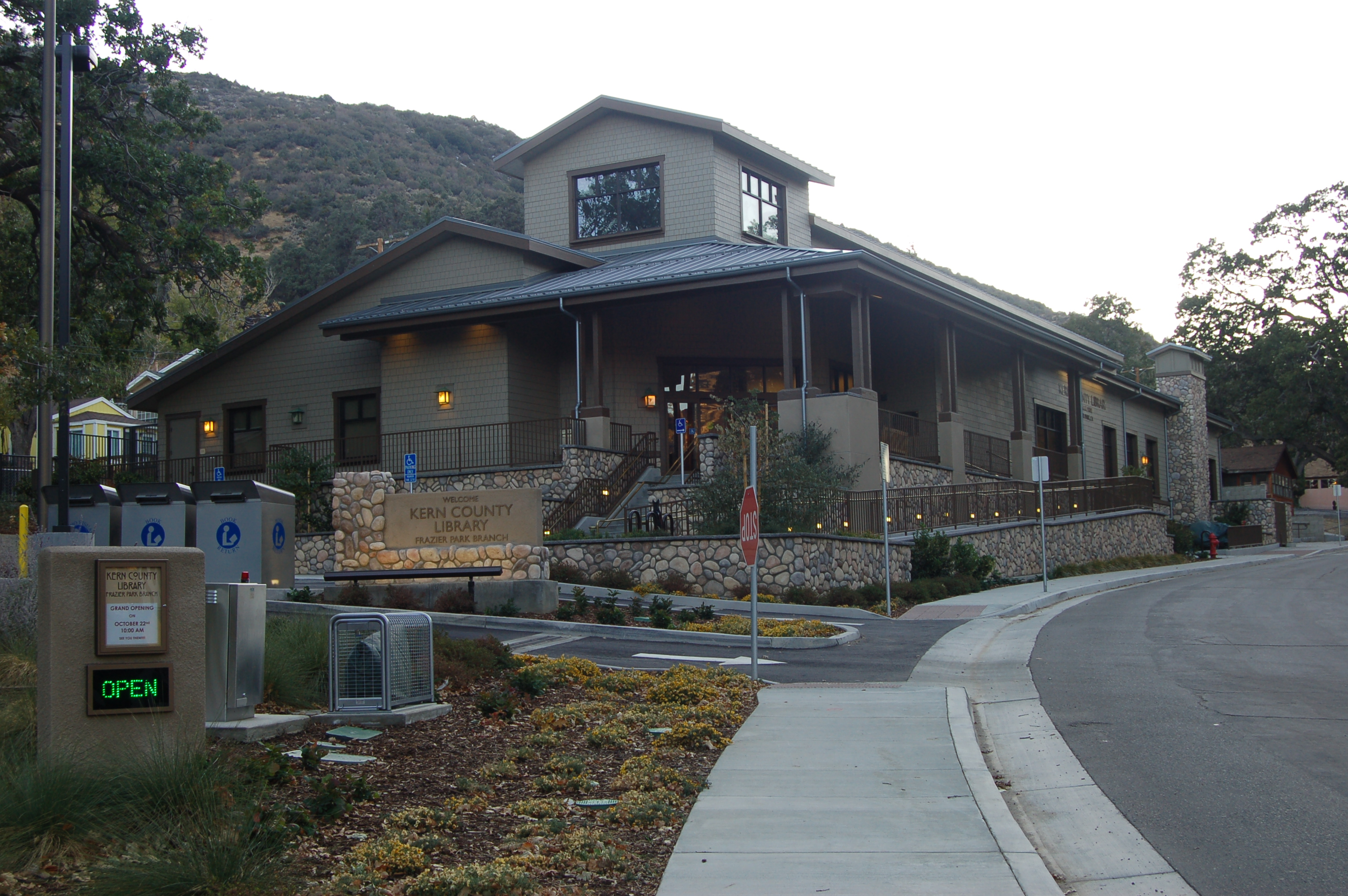 East side of the Frazier Park Library. A branch of the Kern County Library.